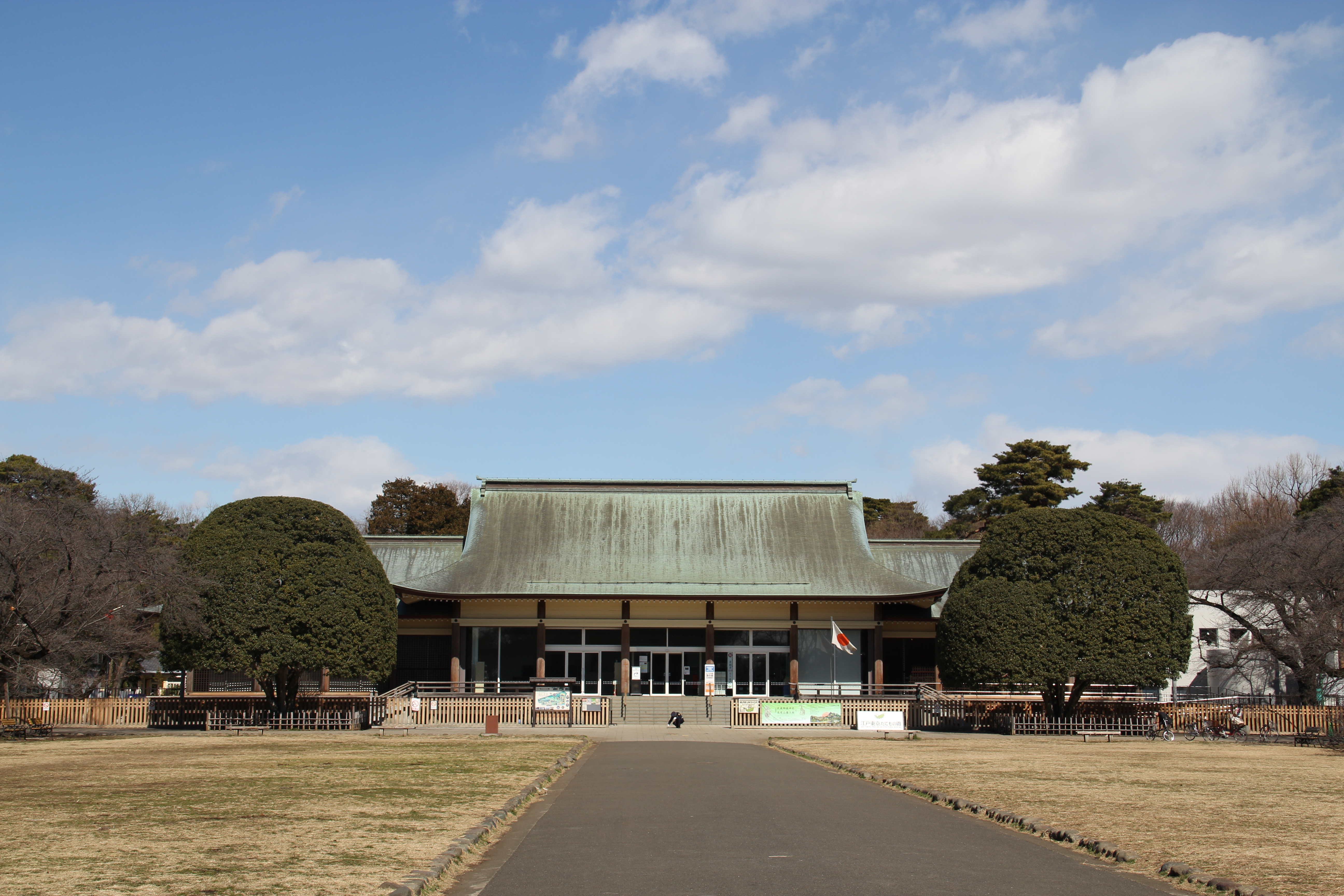 Edo-Tokyo_Open_Air_Architectural in Tokyo